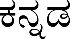 The word "Kannada" written in Kedage font. ಕನ್ನಡ: "ಕನ್ನಡ" ಪದ, ಕೆಡಗೆ ಫಾಂಟ್ ನಲ್ಲಿ